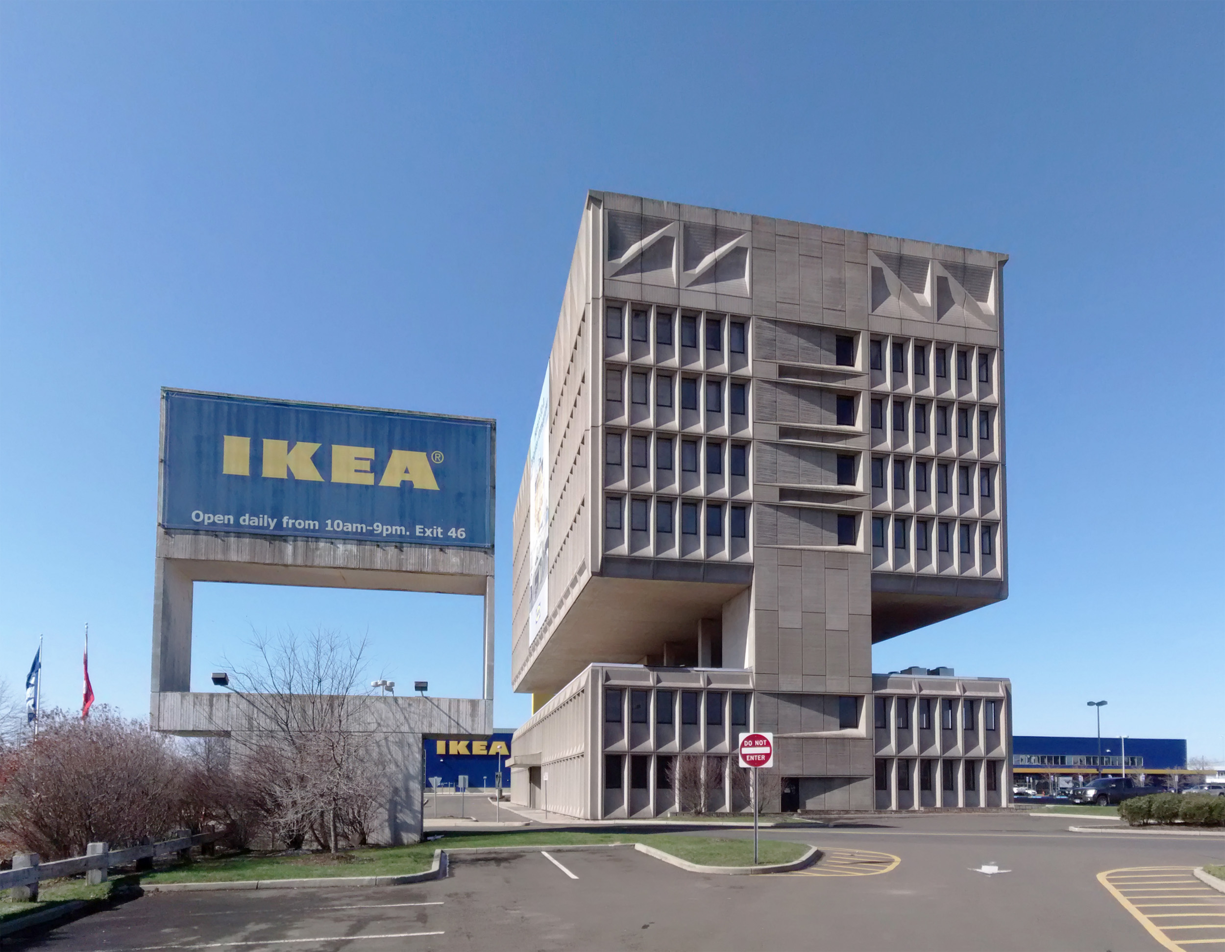 Remaining portion of the Armstrong Rubber/Pirelli Tire Building, now owned by IKEA, 1968/69, Marcel Breuer & Robert F. Gatje, Sargent Drive, Long Wharf, New Haven, Connecticut